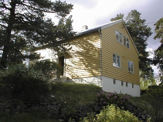 Ekeberghuset, the first house built with modern building techniques in Norway after WWII. Photographer: Knut Sandvik